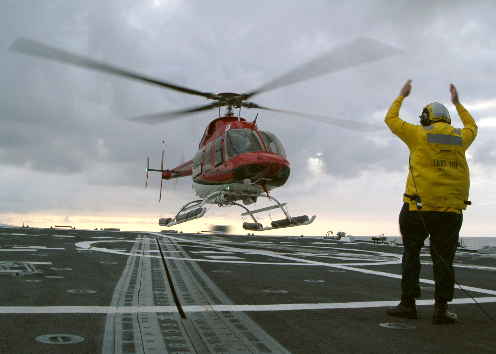 At sea aboard USS Preble (Feb. 24, 2003) -- Boatswain's Mate 2nd Class Tito Alvarez (acting Landing Signalman Enlisted) directs a commercial Bell 4 helicopter into landing position aboard USS Preble (DDG 88). The helicopter is transferring civilian contractors to the guided missile destroyer, which is undergoing weapons trials after being commissioned Nov. 9, 2002. U.S. Navy photo by Photographer’s Mate 3rd Class Ramon Preciado. (RELEASED)